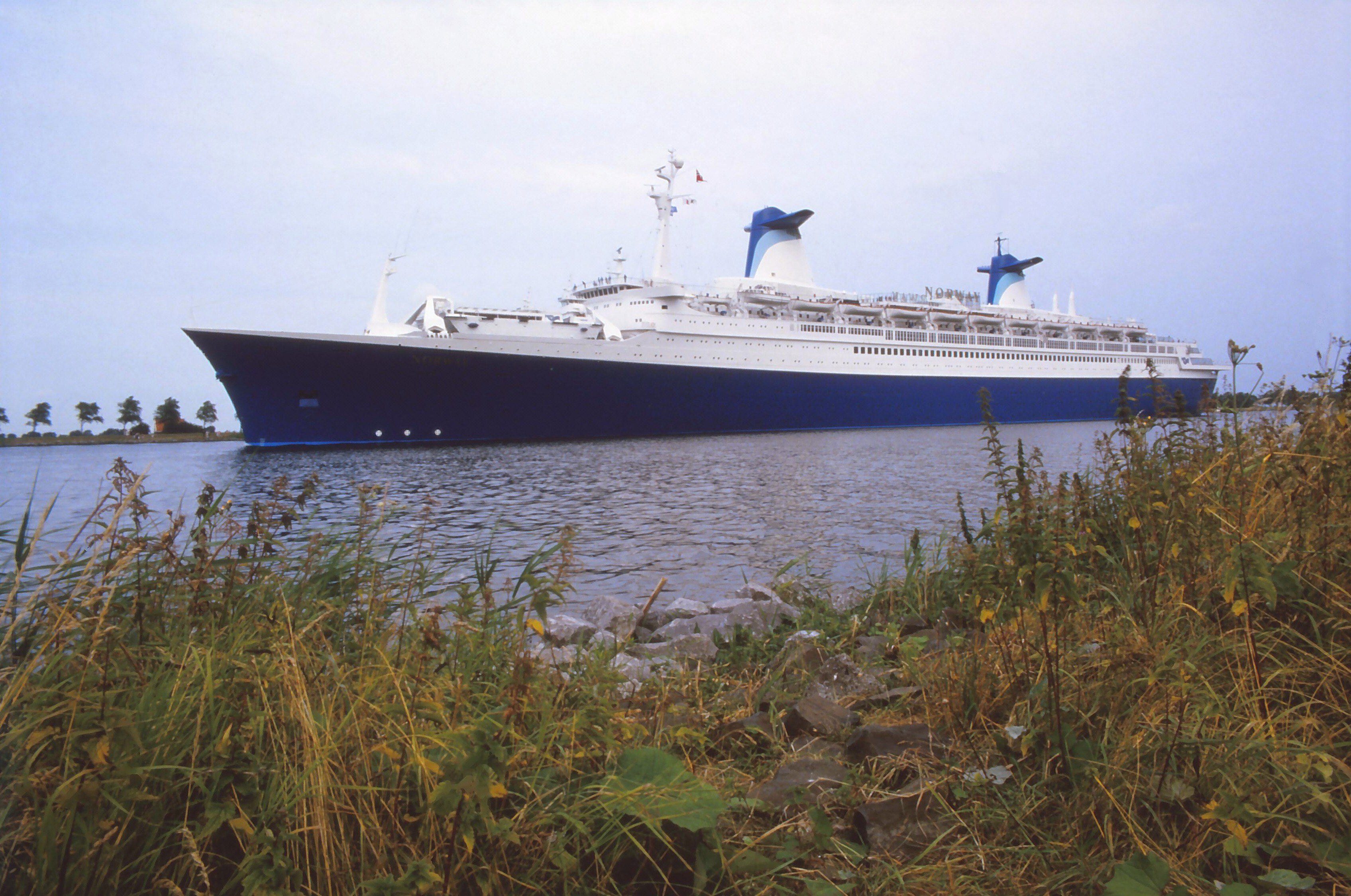 SS Norway build 1962 ex SS France seen here in the early 1980s on its way from Amsterdam to IJmuiden the SS Norway was scrapped in 2007/8 at alang, India